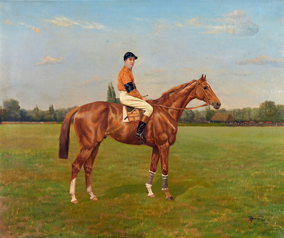 Étienne-Balsan, 1878-1954